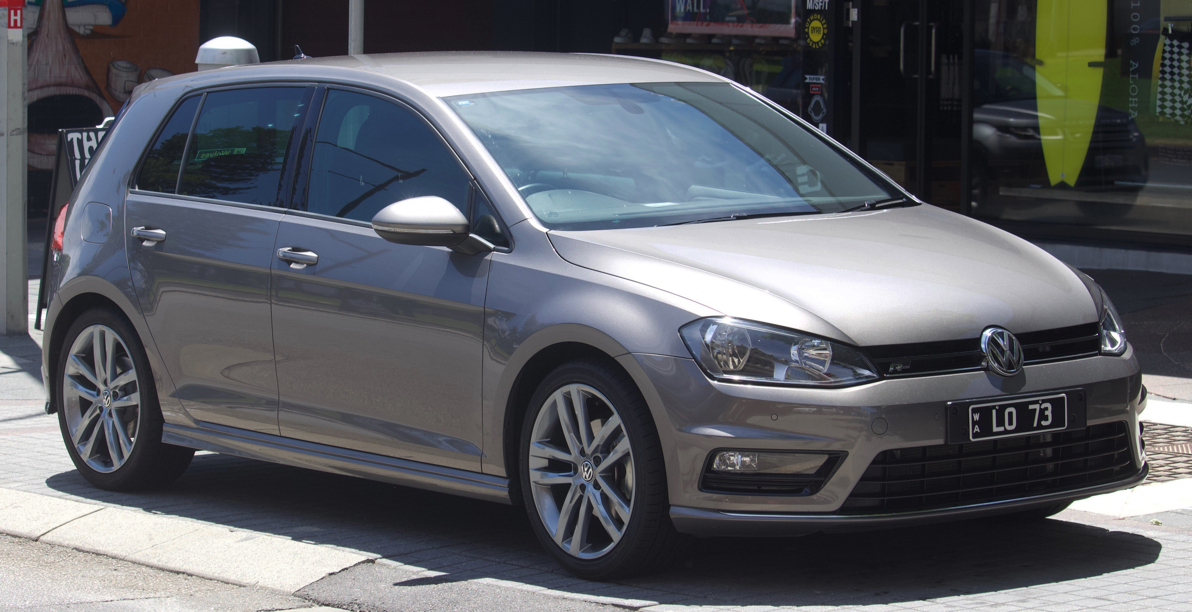 2013-2015 Volkswagen Golf (5G) 103TSI R-Line 5-door hatchback. Photographed in Fremantle, Western Australia, Australia.